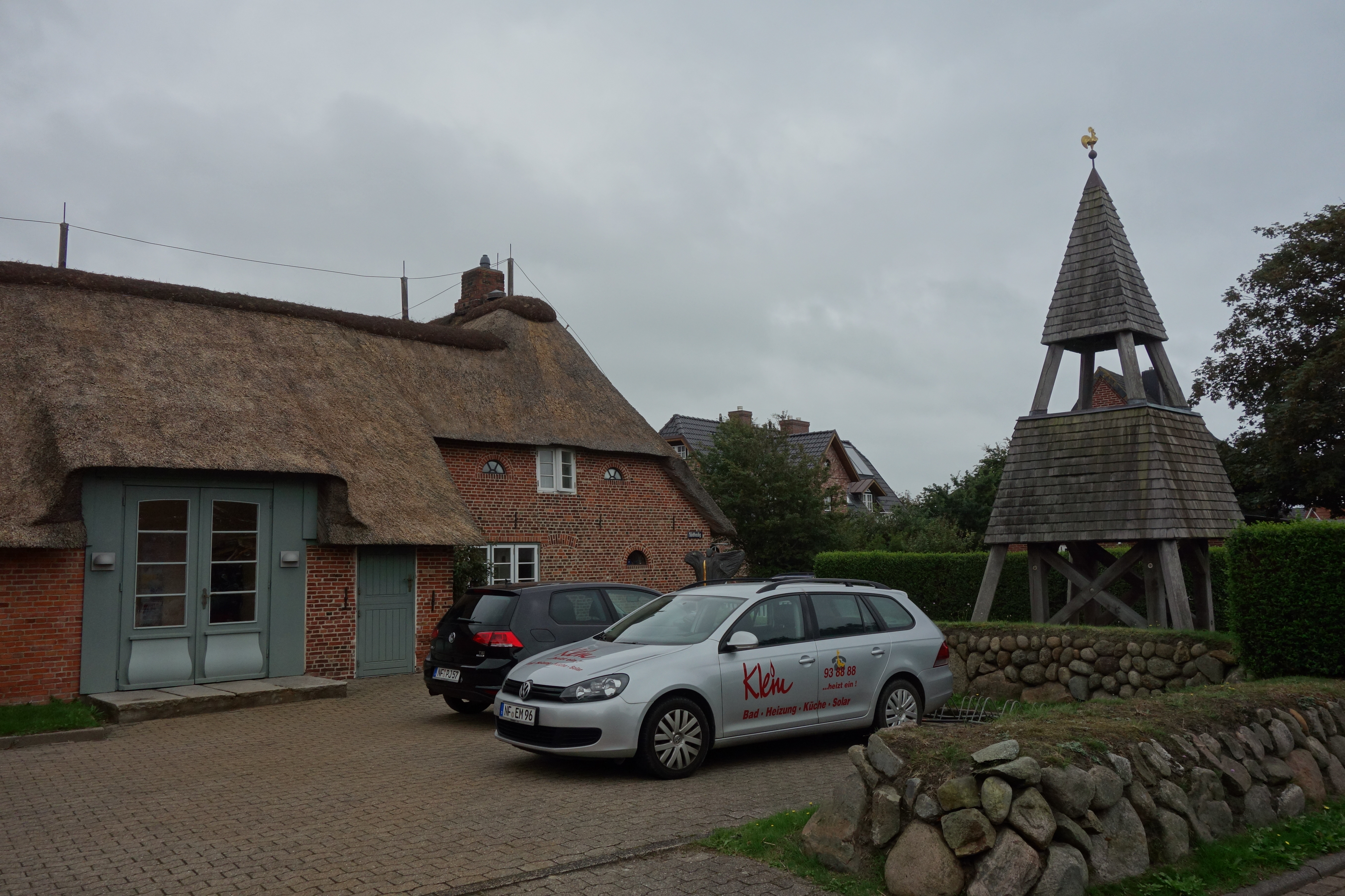 Danish church in Westerland, Sylt